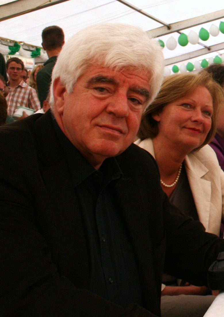 Paul Breuer (on the left) and Monika Brunert-Jetter on the Whitsun festival jubilee in 2010 in Hesselbach. Personality rights warning Although this work is freely licensed or in the public domain, the person(s) shown may have rights that legally restrict certain re-uses unless those depicted consent to such uses. In these cases, a model release or other evidence of consent could protect you from infringement claims.